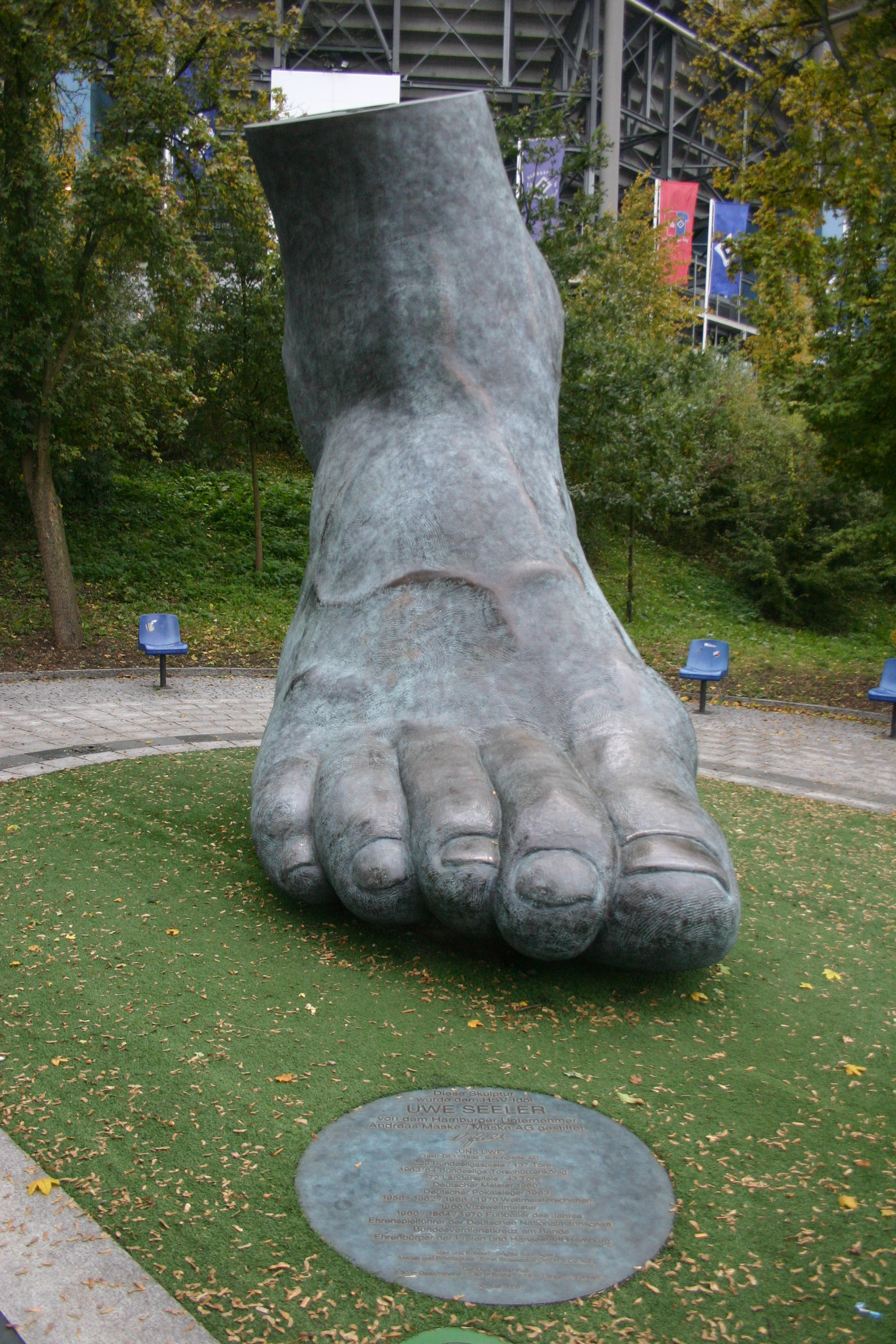 Monument of Uwe Seeler's foot in front of the HSH Nordbank Arena (Volksparkstadion), home of Bundesliga site Hamburger SV. Around the monument, some other notable former players left their footprints, though remarkably smaller